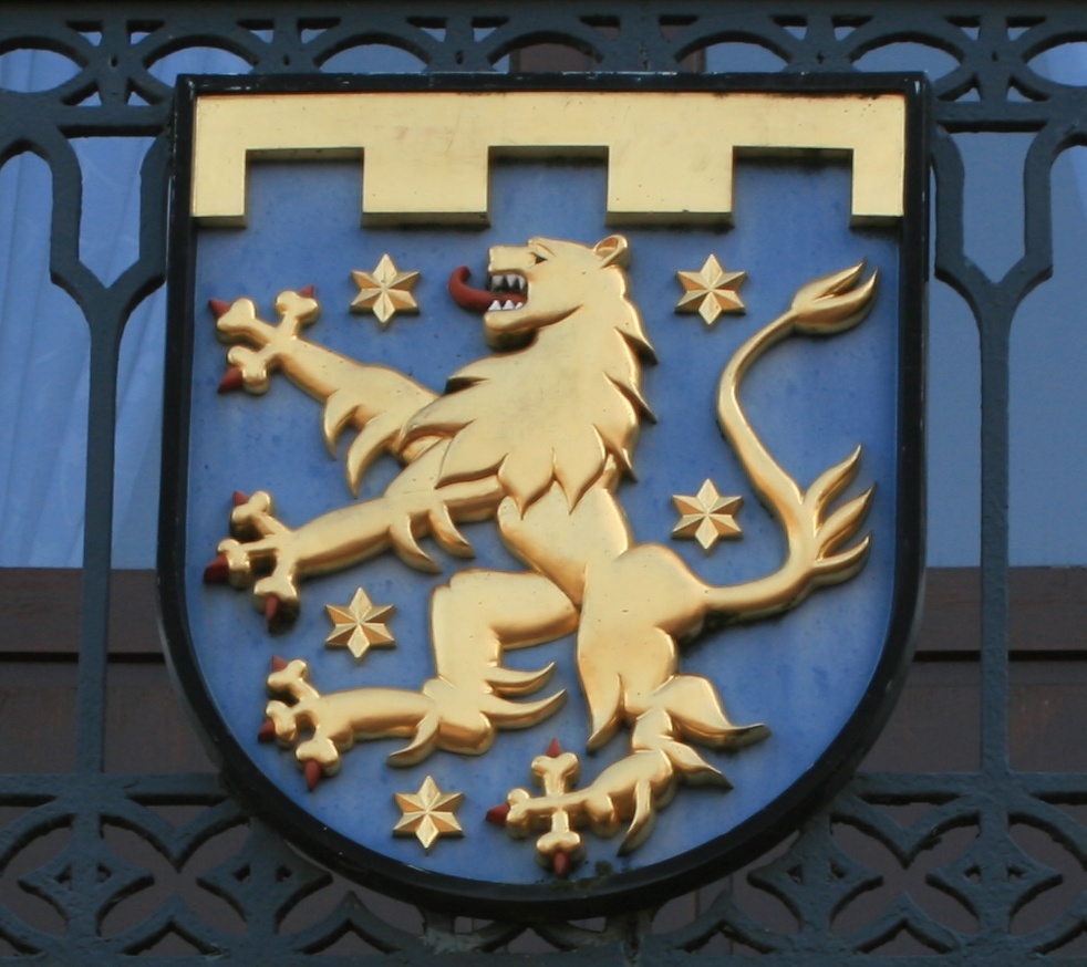 Photo of Coat-of-arms of Thedinghausen (Germany) at the Town-hall